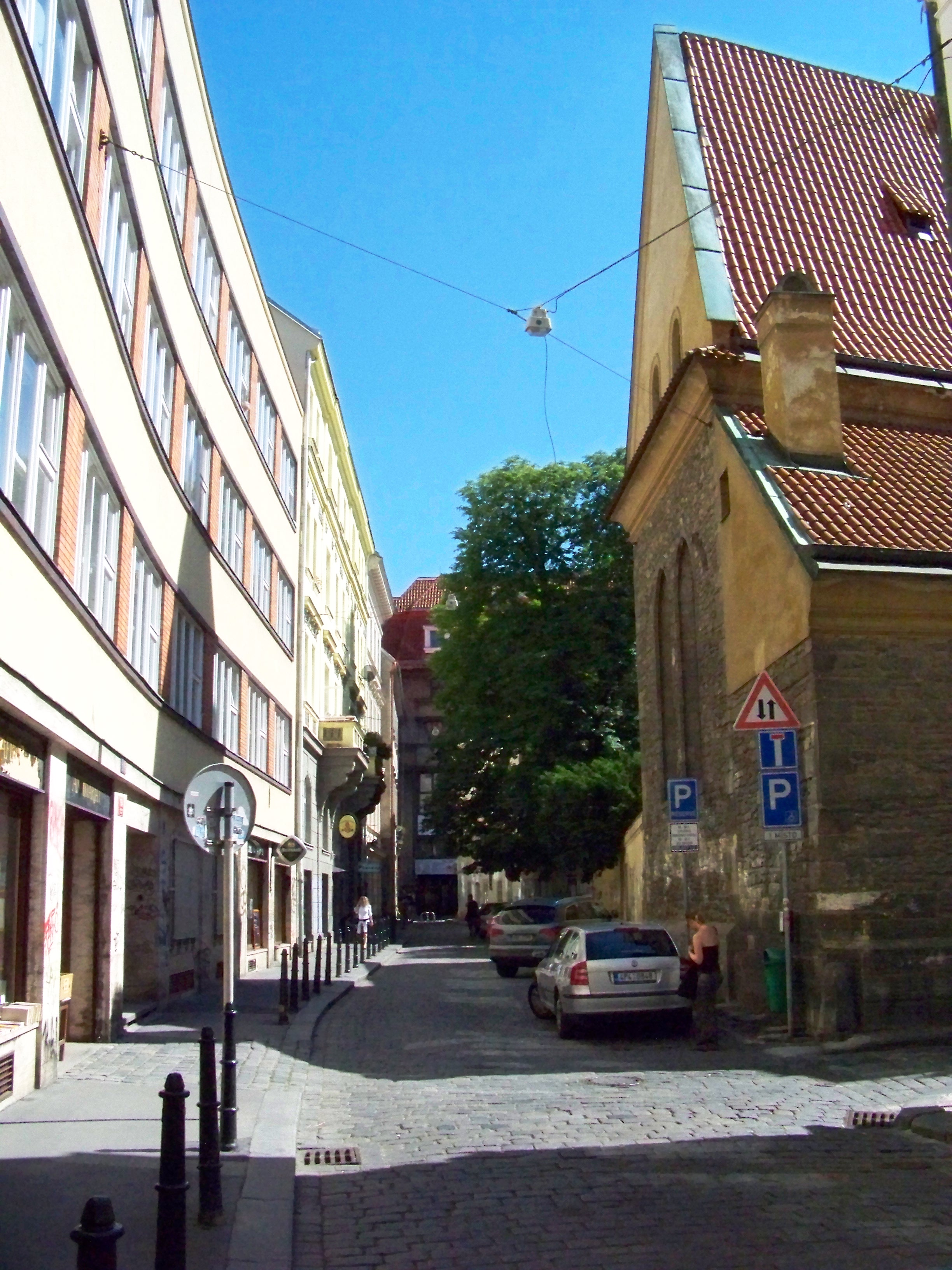 Prague-New Town, the Czech Republic. Opatovická street, Saint Michael Church in Jircháře.